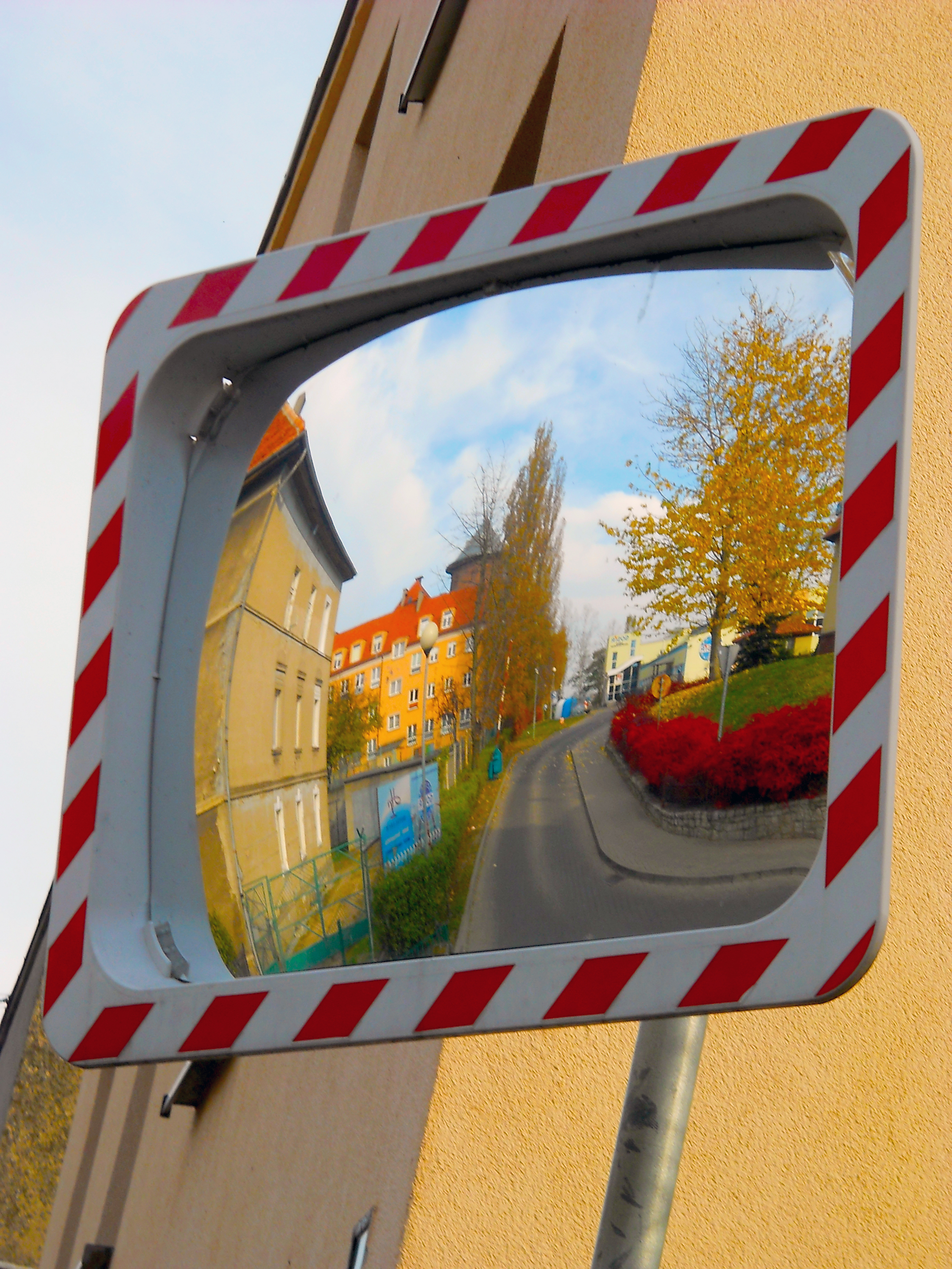 mirror